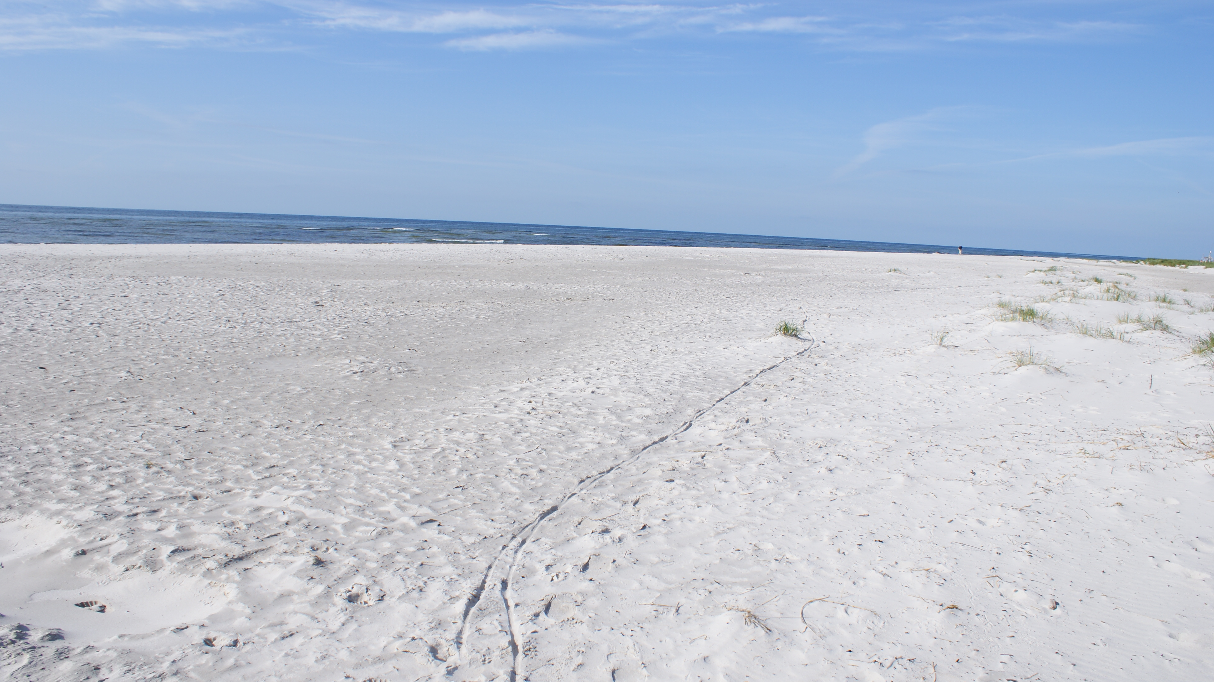 Dueodde beach near Nexø, southeastern Bornholm, Denmark.